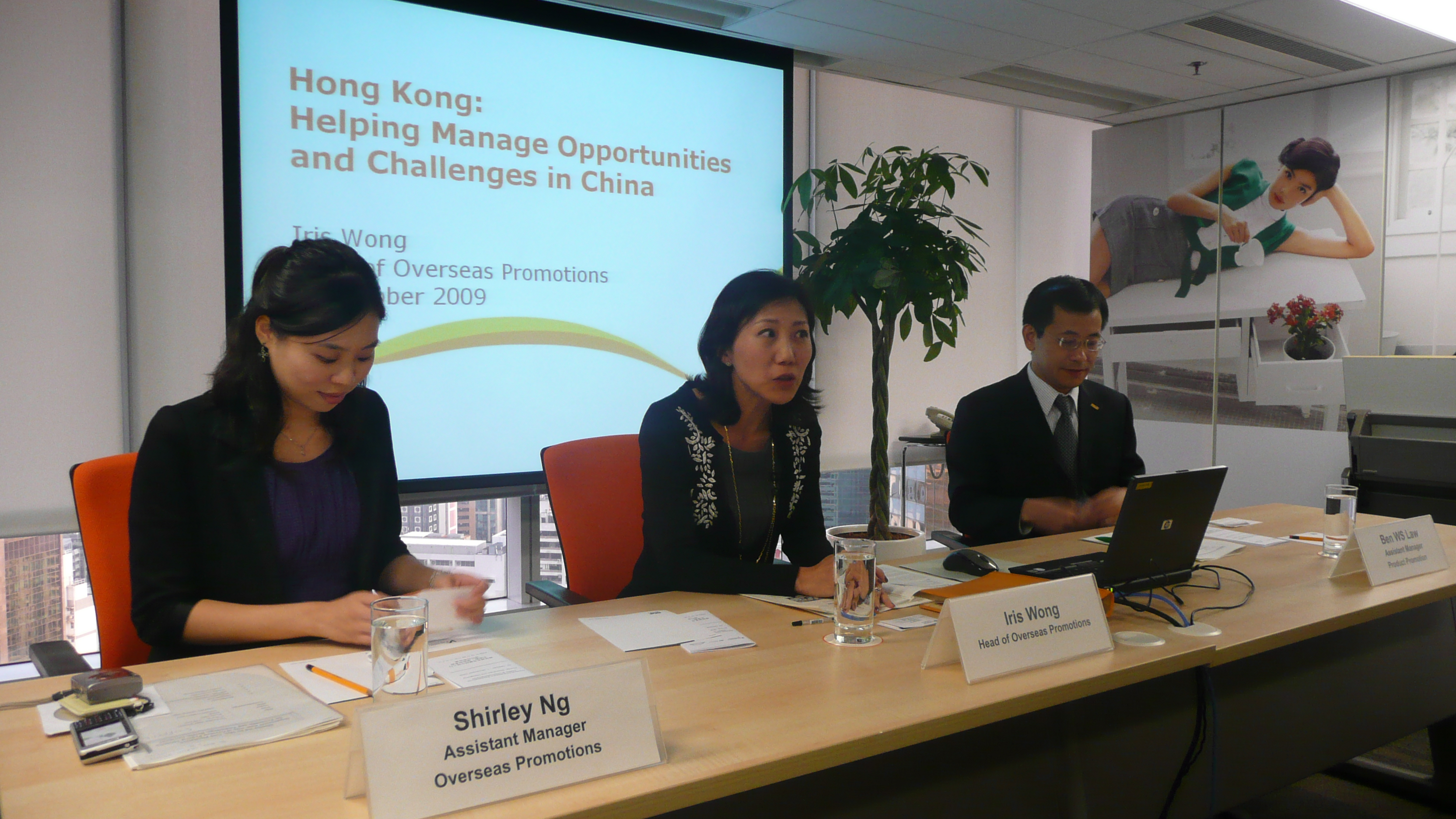 Hongkong Trade Development Council - Helping Manage Opportunities and Challenges in China